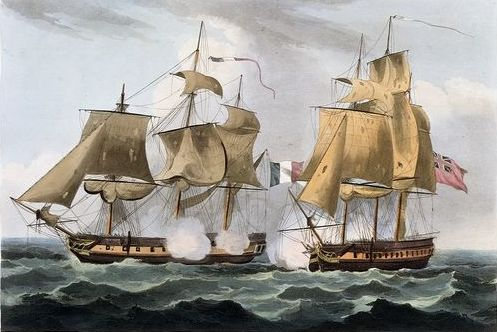 Capture of the Castor May 29th 1794